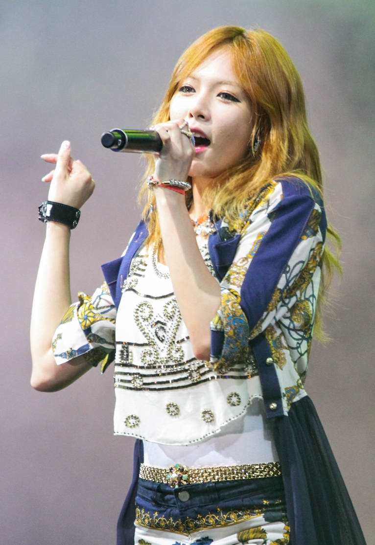 HyunA performing in July 2012